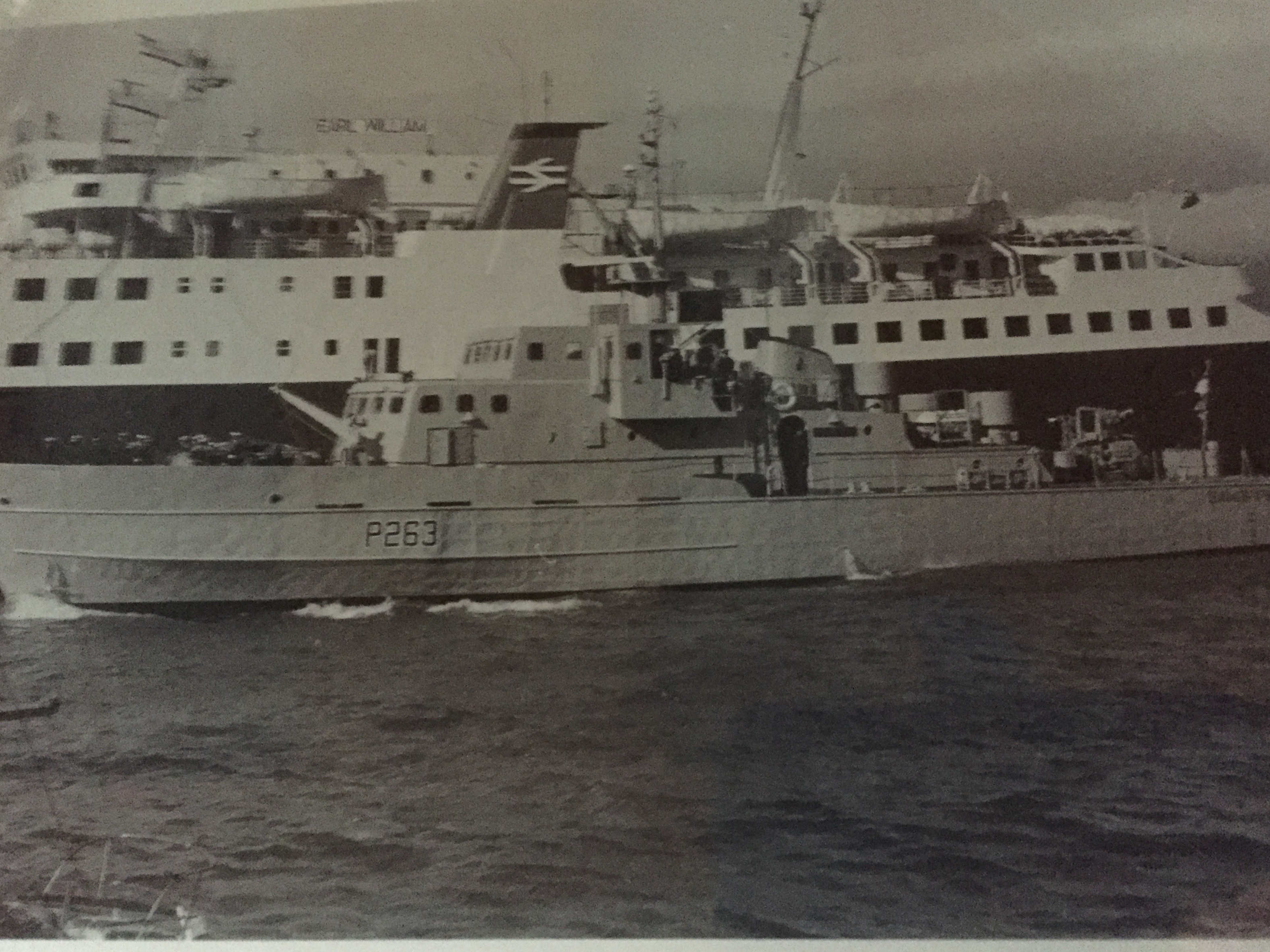 HMS Sandpiper approaching Weymouth harbour circa 1983